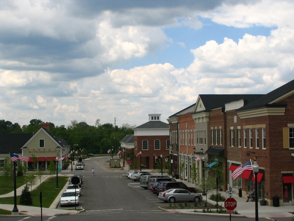 The "First and Main" shopping district of Hudson, Ohio, USA. Photo taken 5-29-2005 by Zach Vesoulis. Photograph looks west along Village Way from the parking garage east of First St.